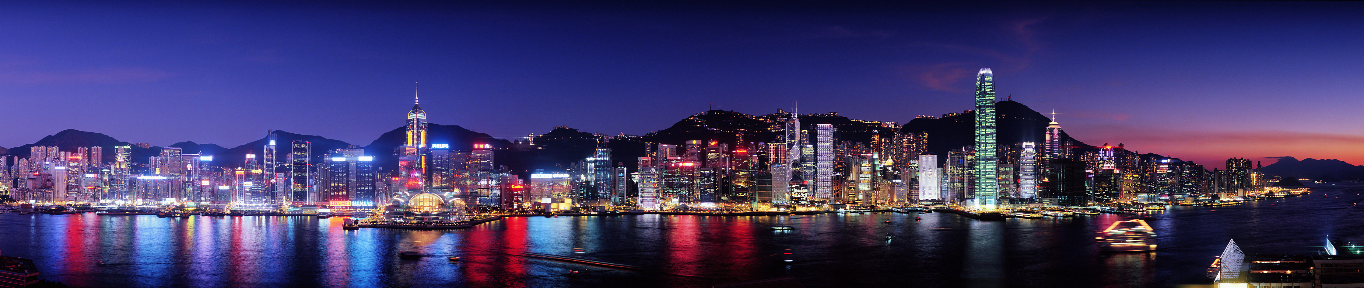 Hong Kong